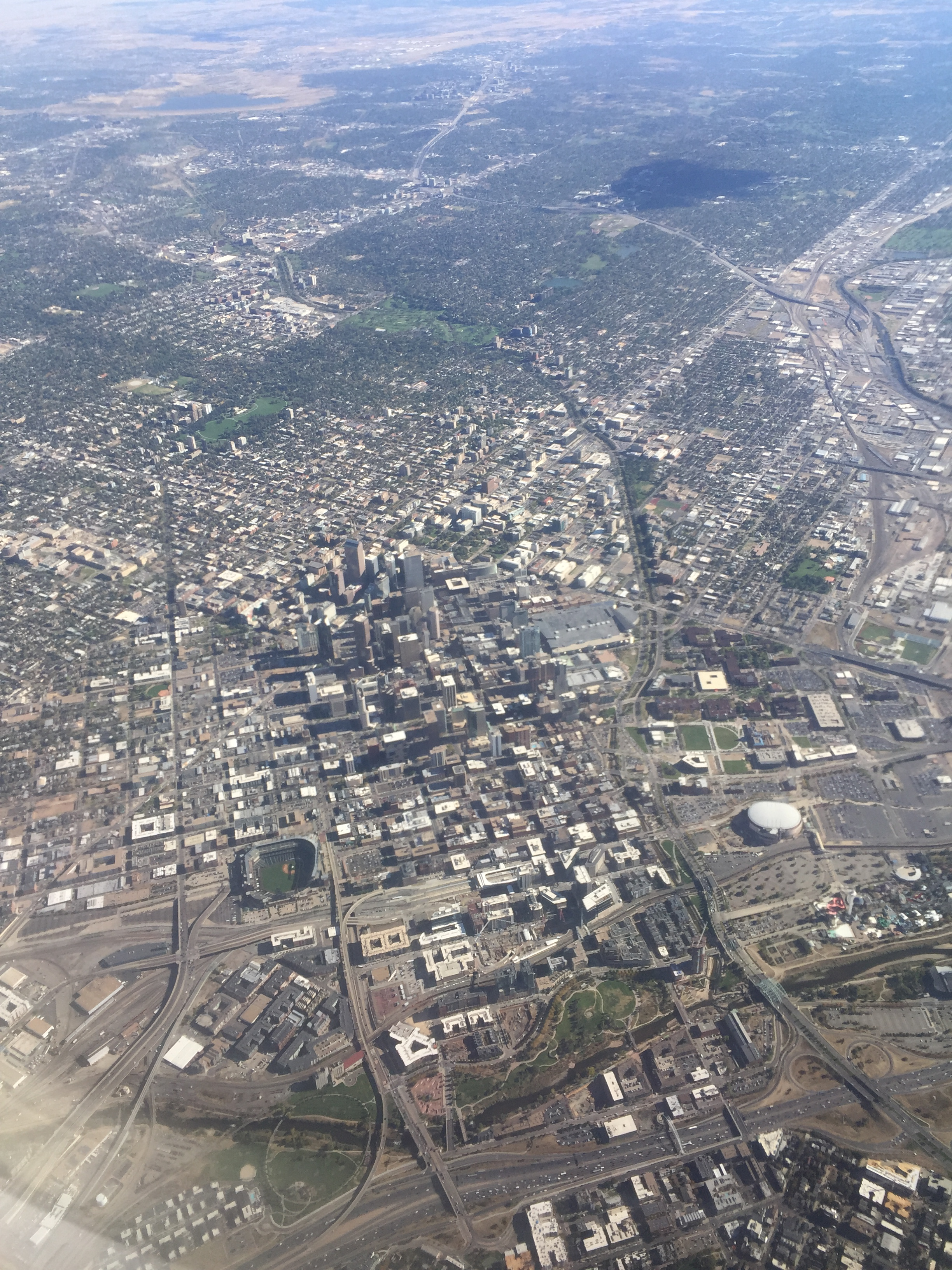 Aerial photograph of downtown Denver, Colorado and vicinity in 2016